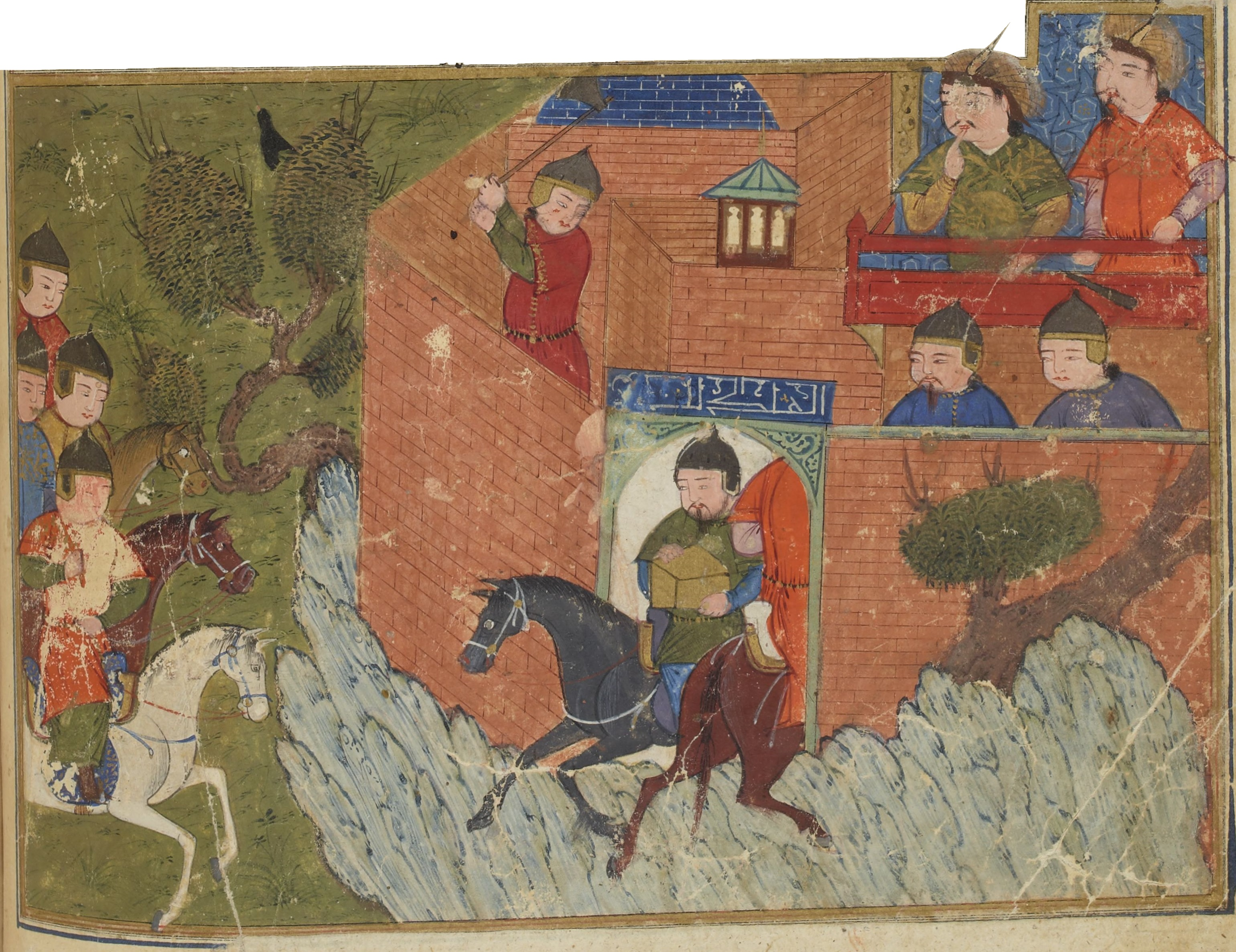 Capture of Alamut (1256). Jami' al-tawarikh, Rashid al-Din